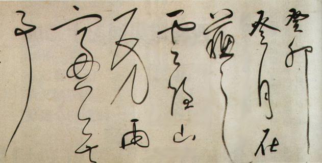 試墨帖部分, Calligraphy of Cursive and Semi-cursive style, paper scroll, 行草書羅漢賛等書巻. The Chinese reads, left to right, top to bottom, 癸卯叁月 在蘇之雲隠山房 雨窗無事 (continues, 范而孚 王伯明 趙满生同過訪 試虎丘 磨高麗墨 并試筆亂書 都無倫次)